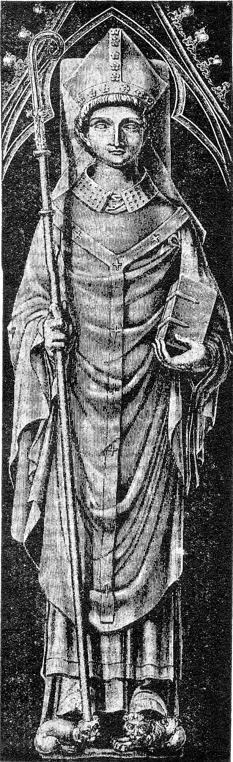 This is a scan of the historical document